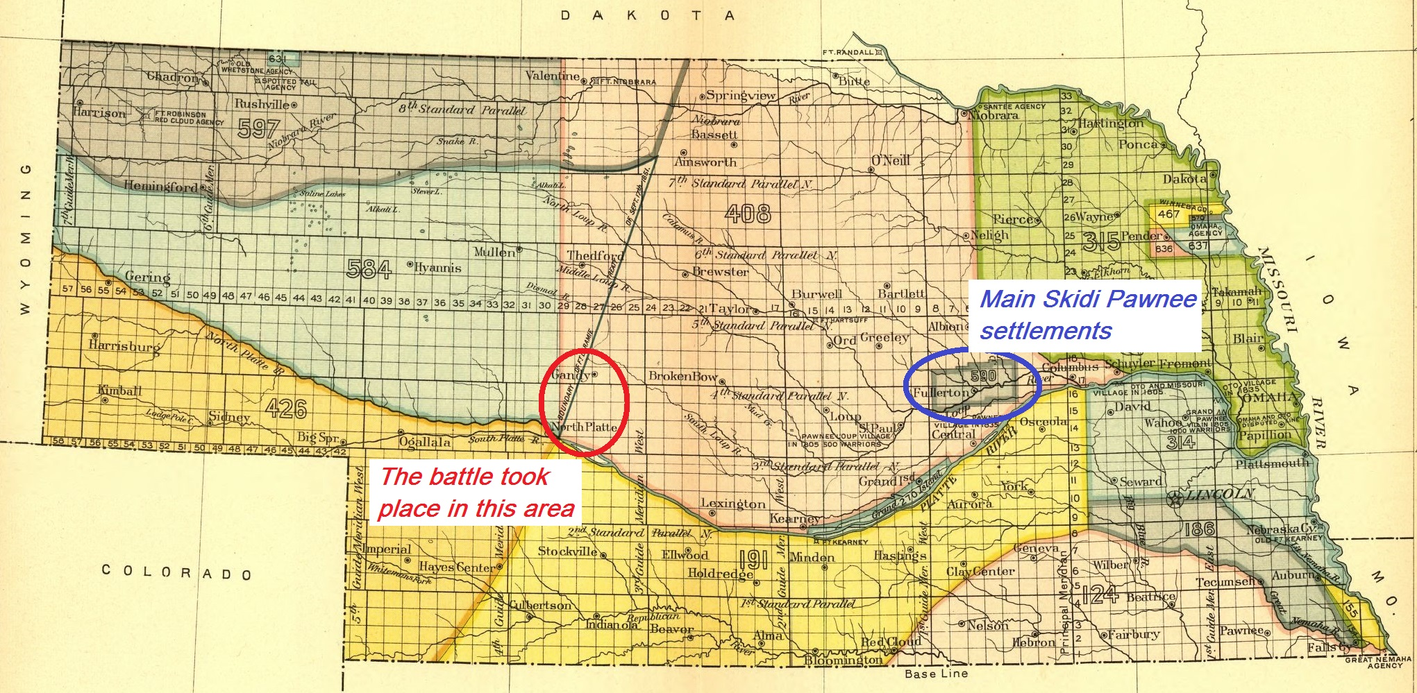 Map showing the likely area where the battle between the Pawnee and the Cheyenne took place in 1830 (1833?). The Pawnee captured the Sacred Arrows of the Cheyenne